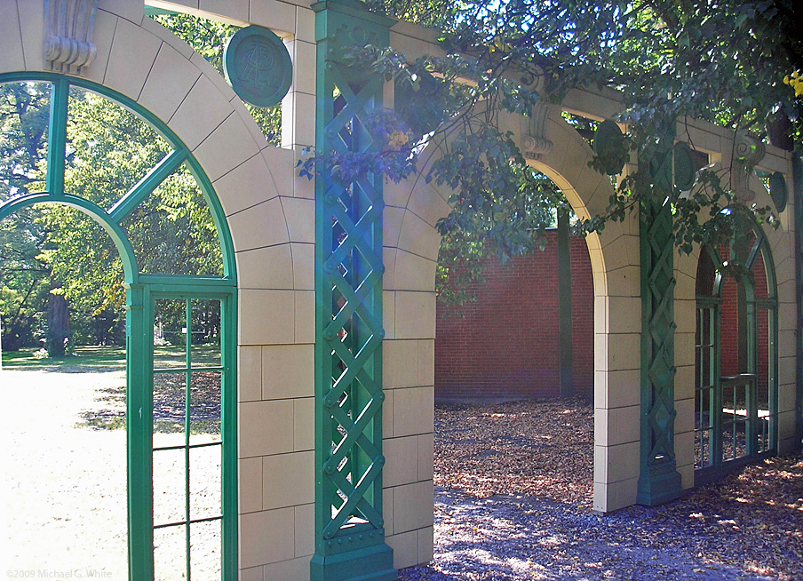 Entrance to Forbes Field, re-created in wood in 2006, located near the original site amongst the campus of the University of Pittsburgh.